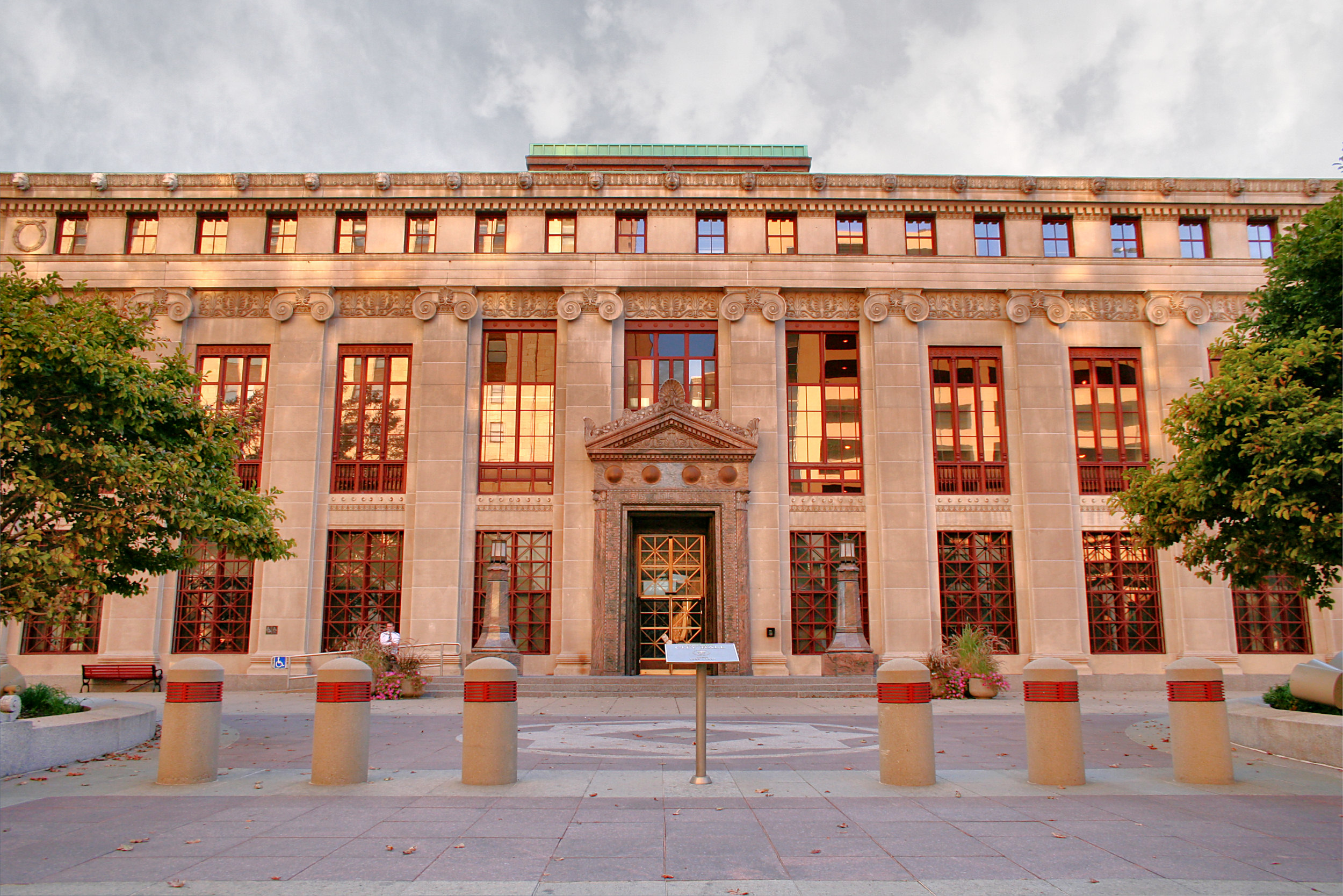 City Hall in Columbus, Ohio. Photo shot by Derek Jensen (Tysto), 2005-October-05